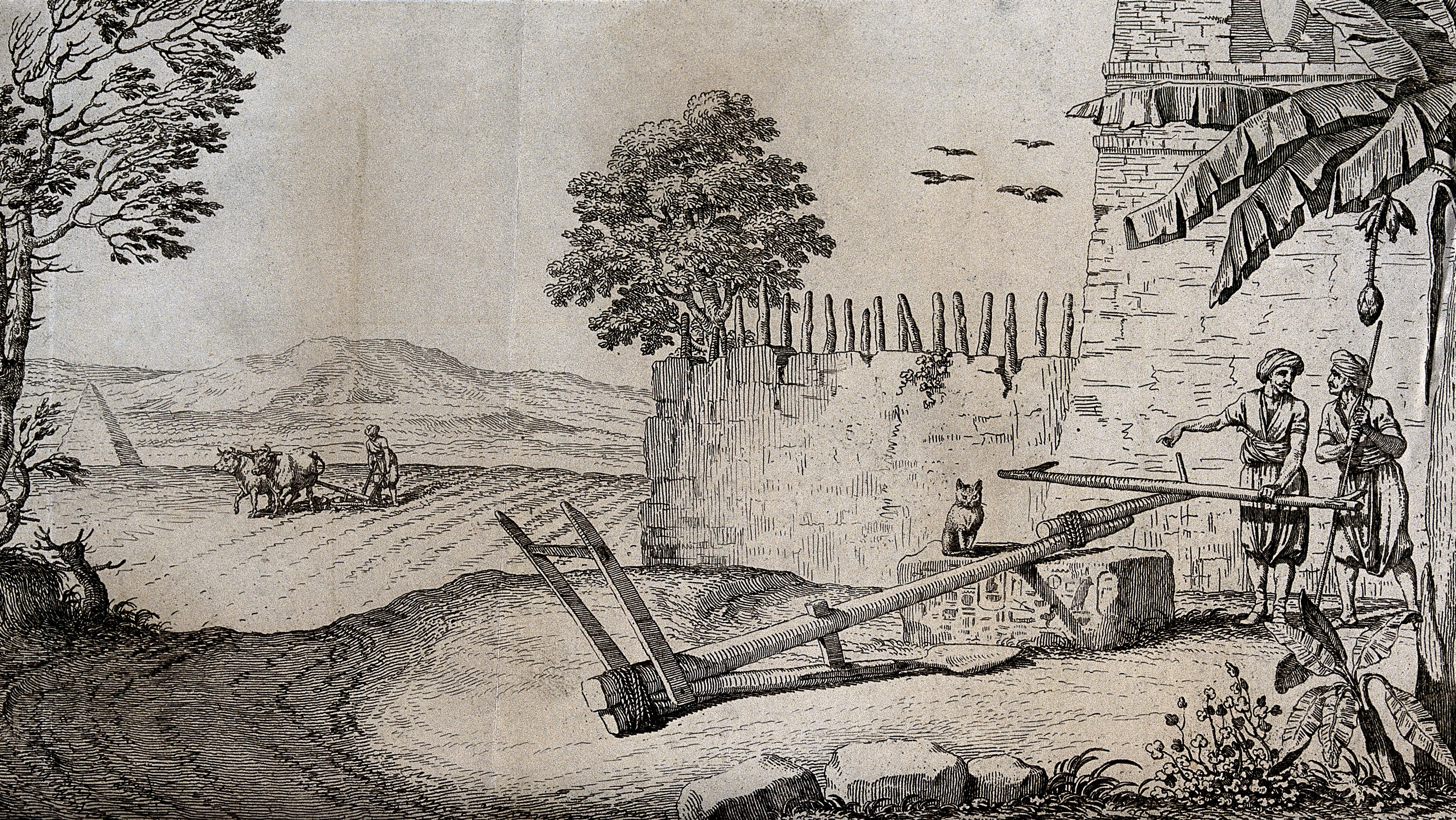 Agriculture: two Egyptian fellahin with a plough in the left foreground, in the background two oxen yolked to a similar plough till the soil. Etching. Iconographic Collections